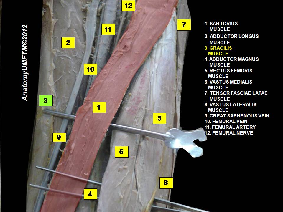 Anatomical dissections